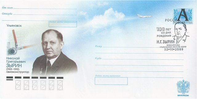 A Russian envelope with portrait of Zyirin N.G.